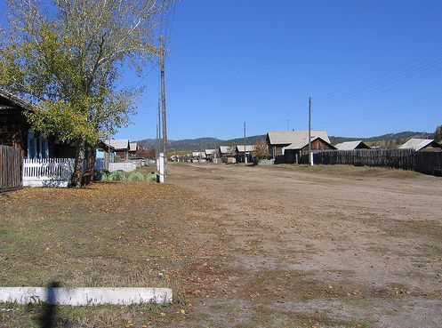 Taken in 2006